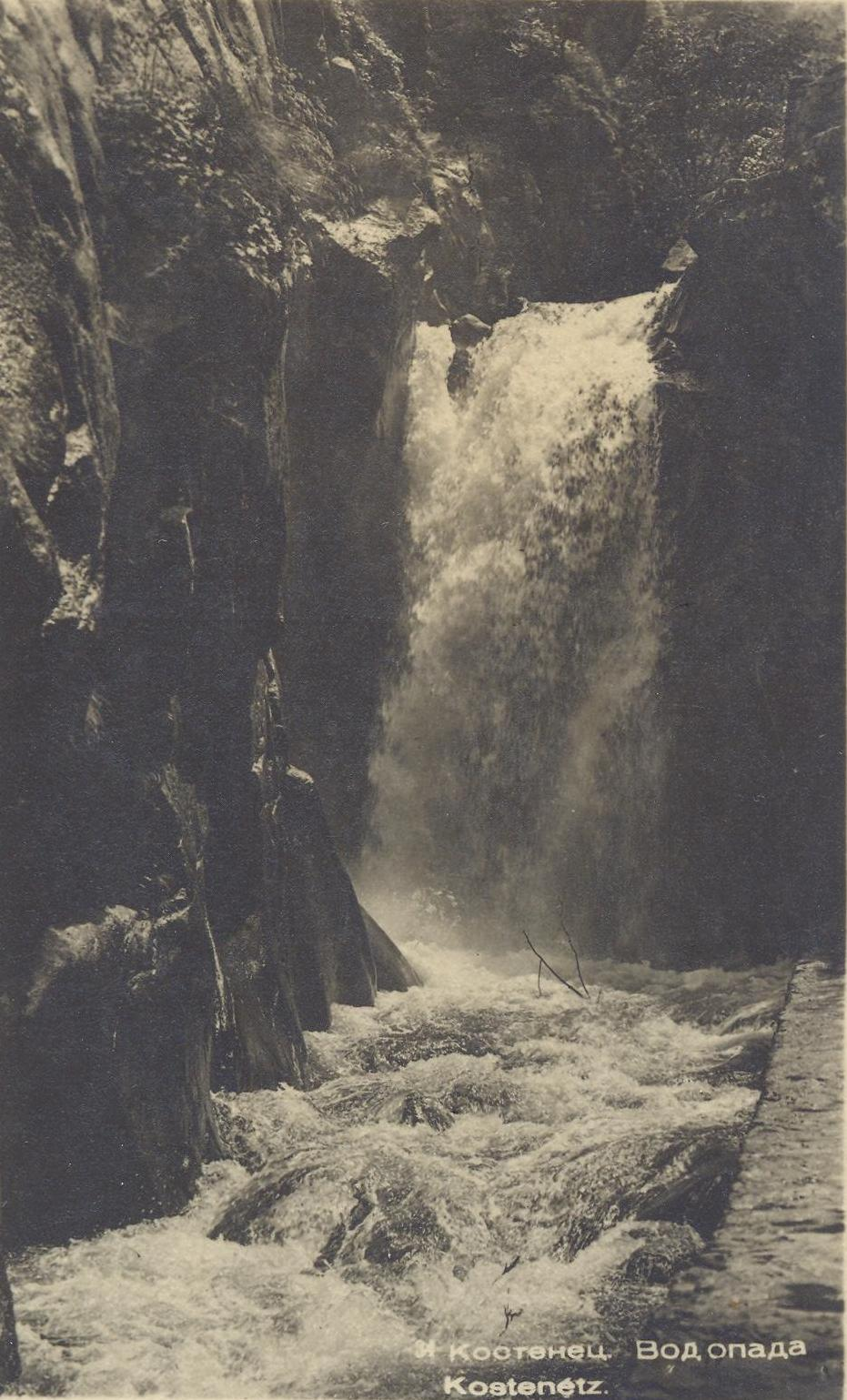 Kostenets waterfall